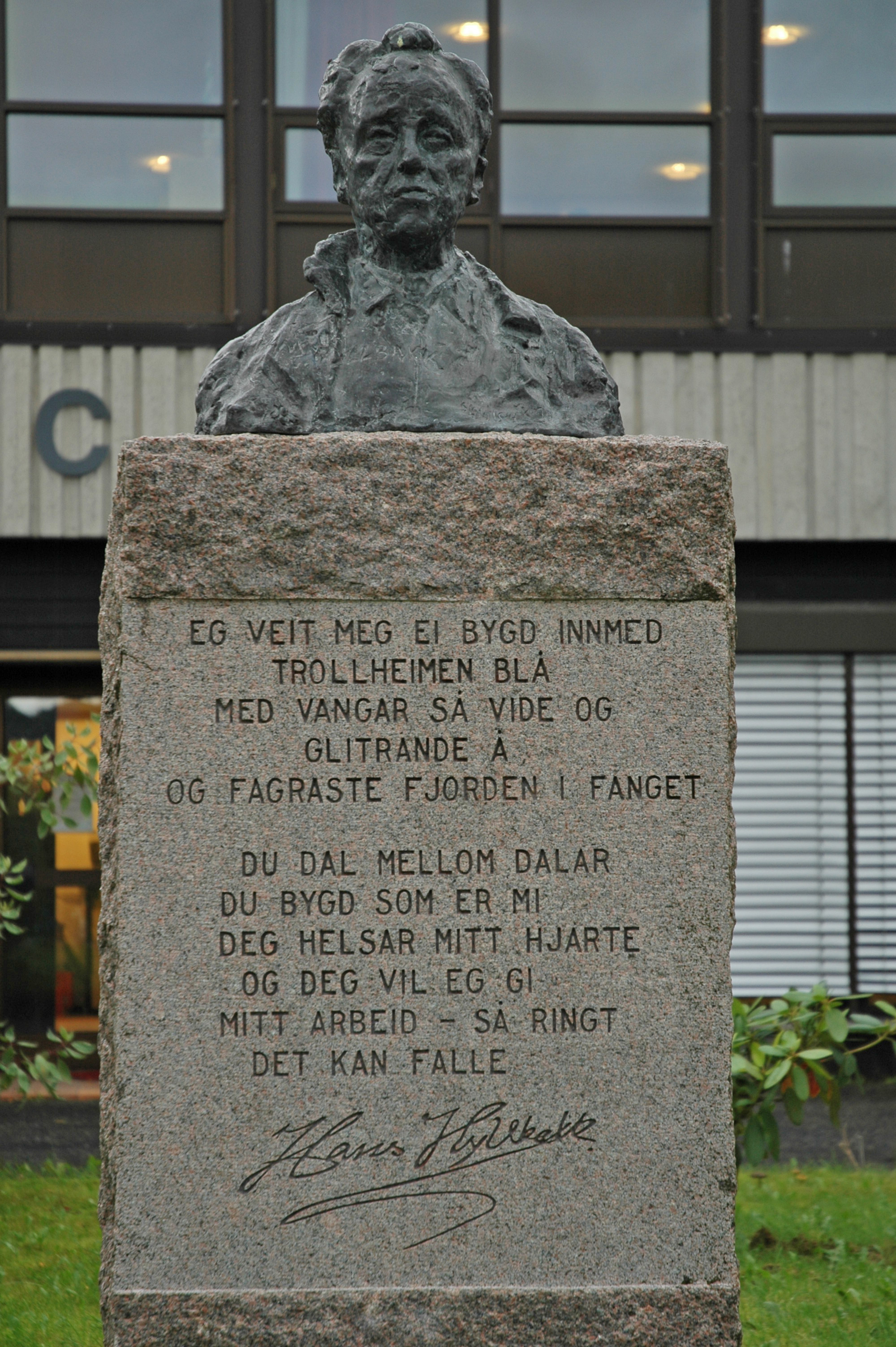 Bust of Hans Hyldbakk, Norwegian poet and local historian.